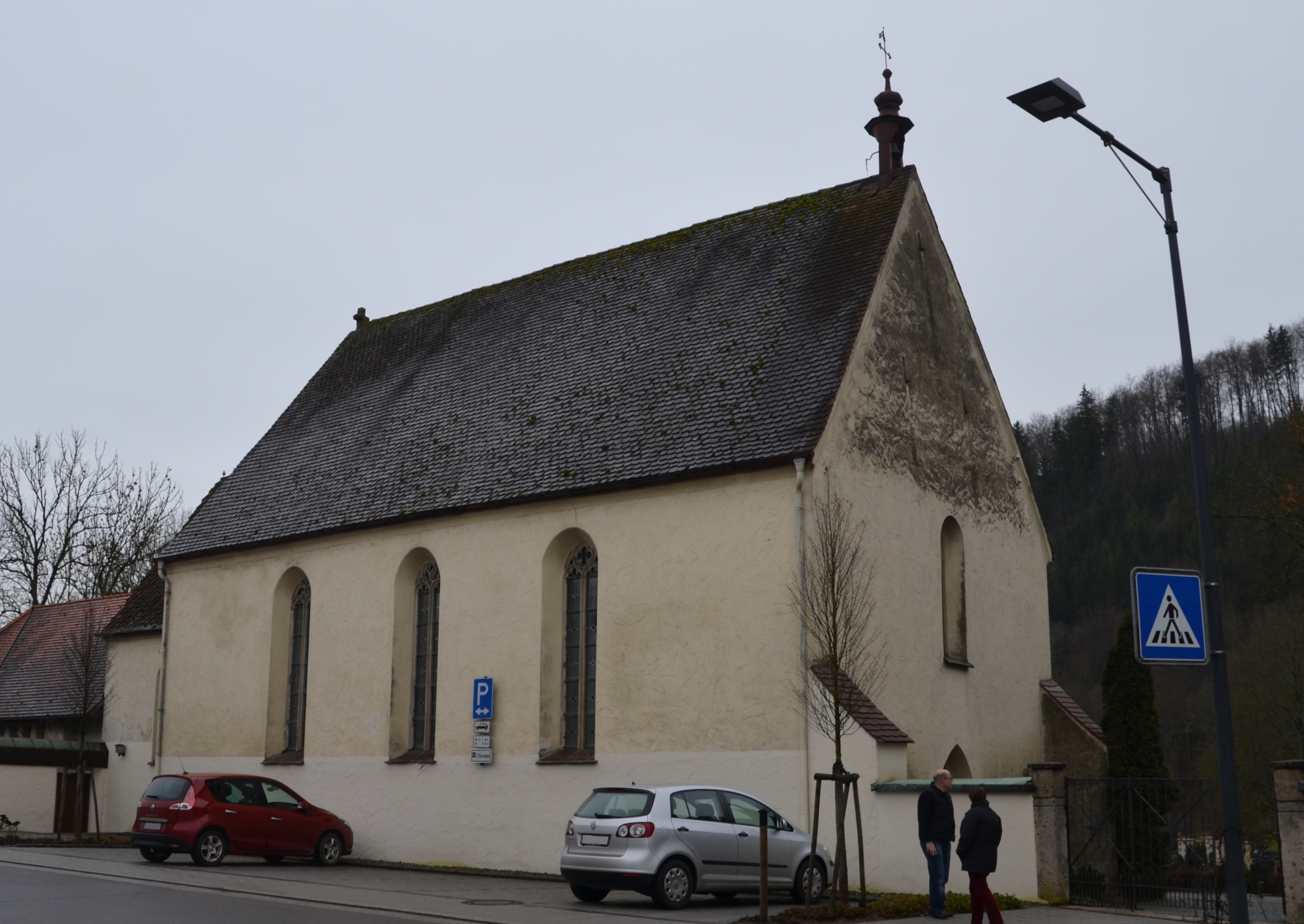 Liebfrauenkapelle in Zwiefalten (north-west-view)